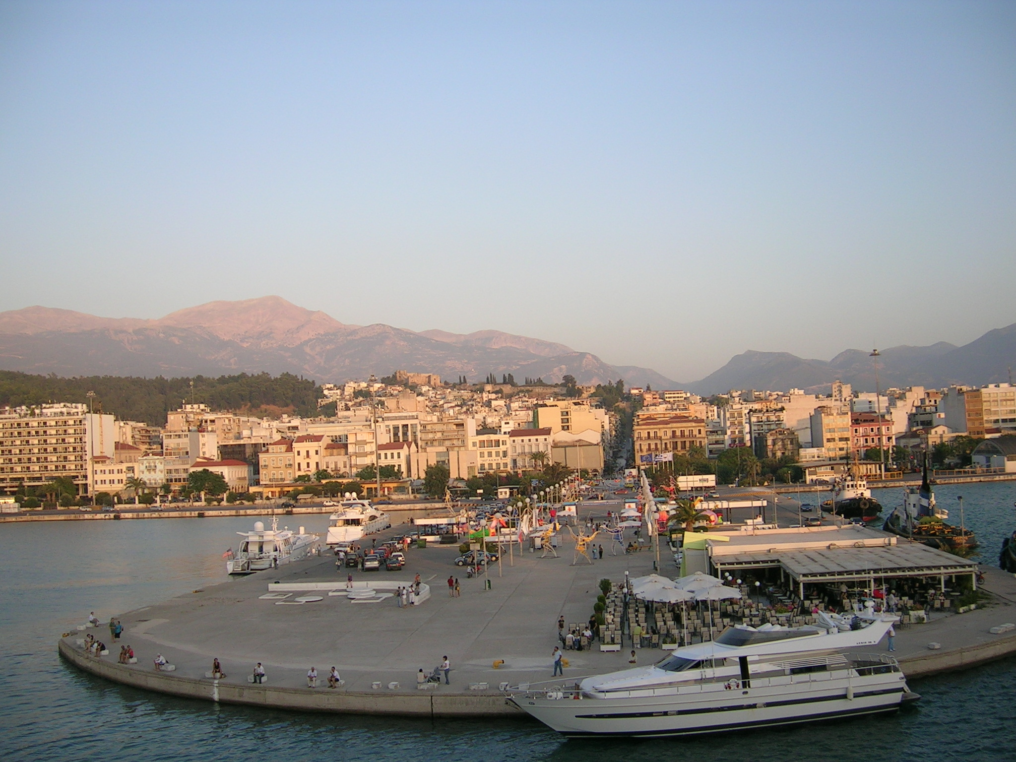 Patras, view from the Port.